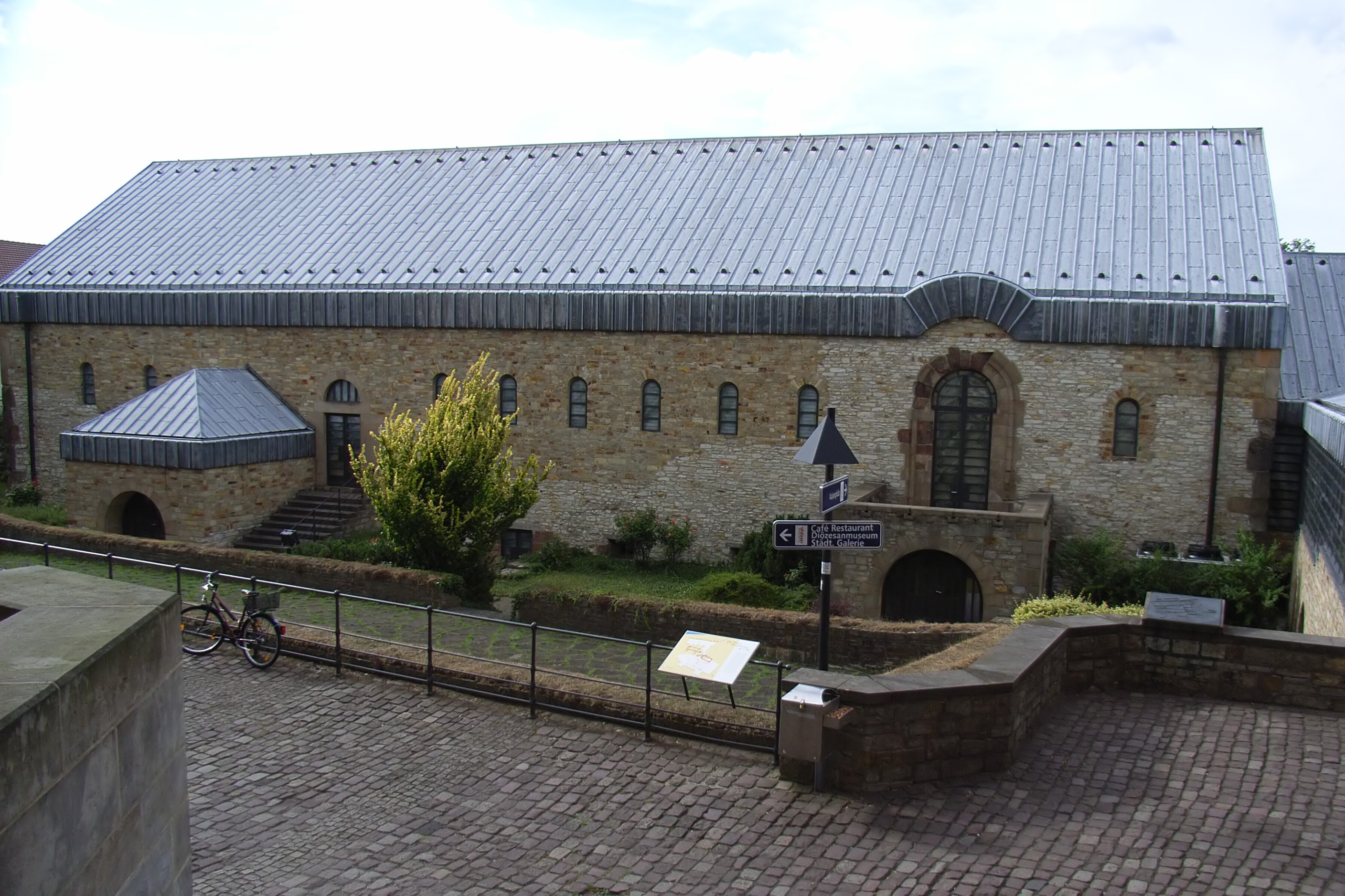 Paderborn, Germany: Museum in the Kaiserpfalz next to Paderborn Cathedral.